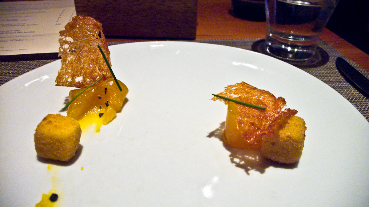 A molecular gastronomy rendition of eggs Benedict as served by wd~50 at 50 Clinton Street in New York, New York, USA. Photographer's caption: "The cubes are deep-fried Hollandaise. Yes."